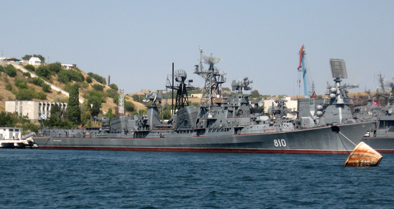 The Russian project 01090 guard ship (fomer project 61 large ASW ship, Kashin class destroyer) Smetlivyy in Sevastopol.